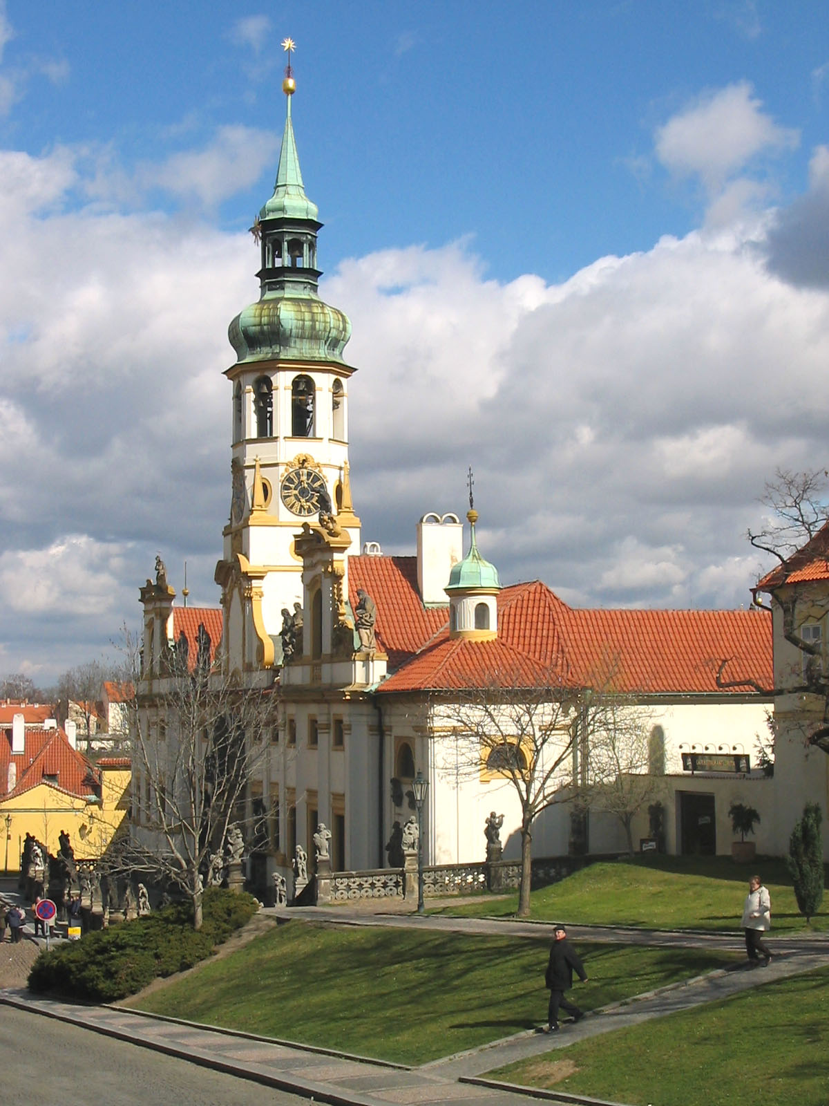 Church named Loreta in the Castle District of Prague